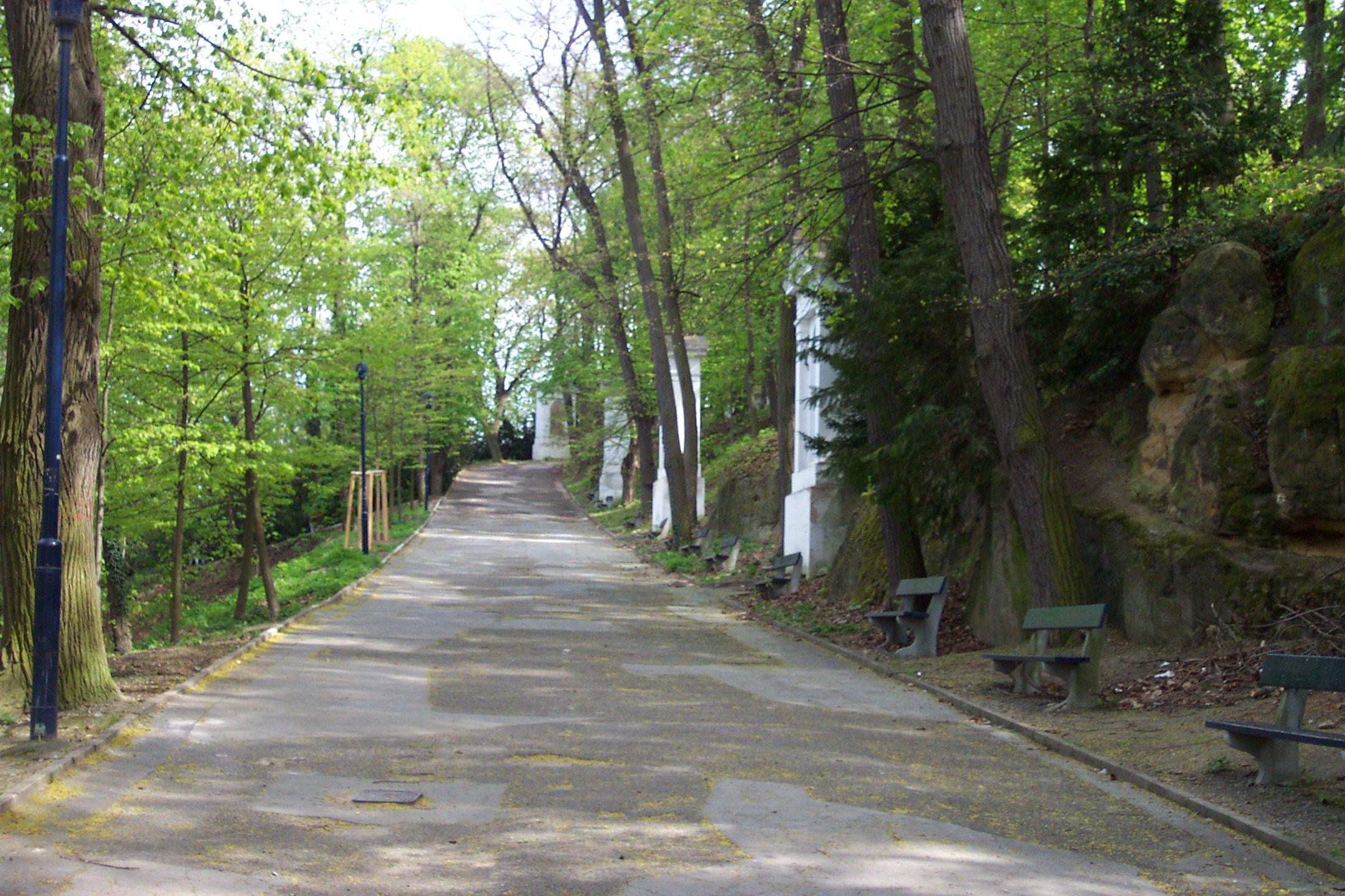 Prague, a path to the Petřín hill. There are pictures with the story of the passion of Christ along the way.